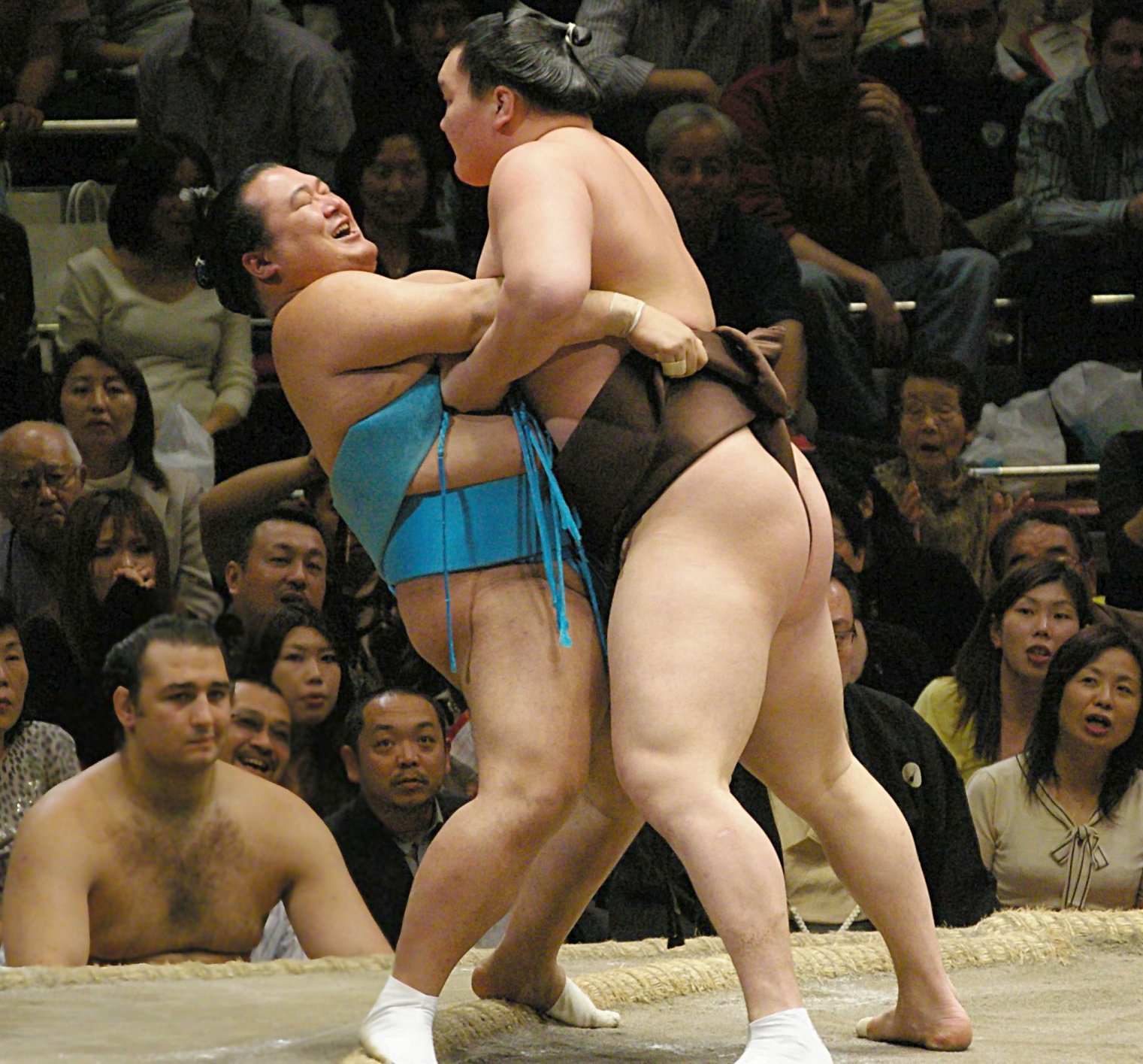 A sumo bout between Hakuho and Toyonoshima, Tokyo, October 2007